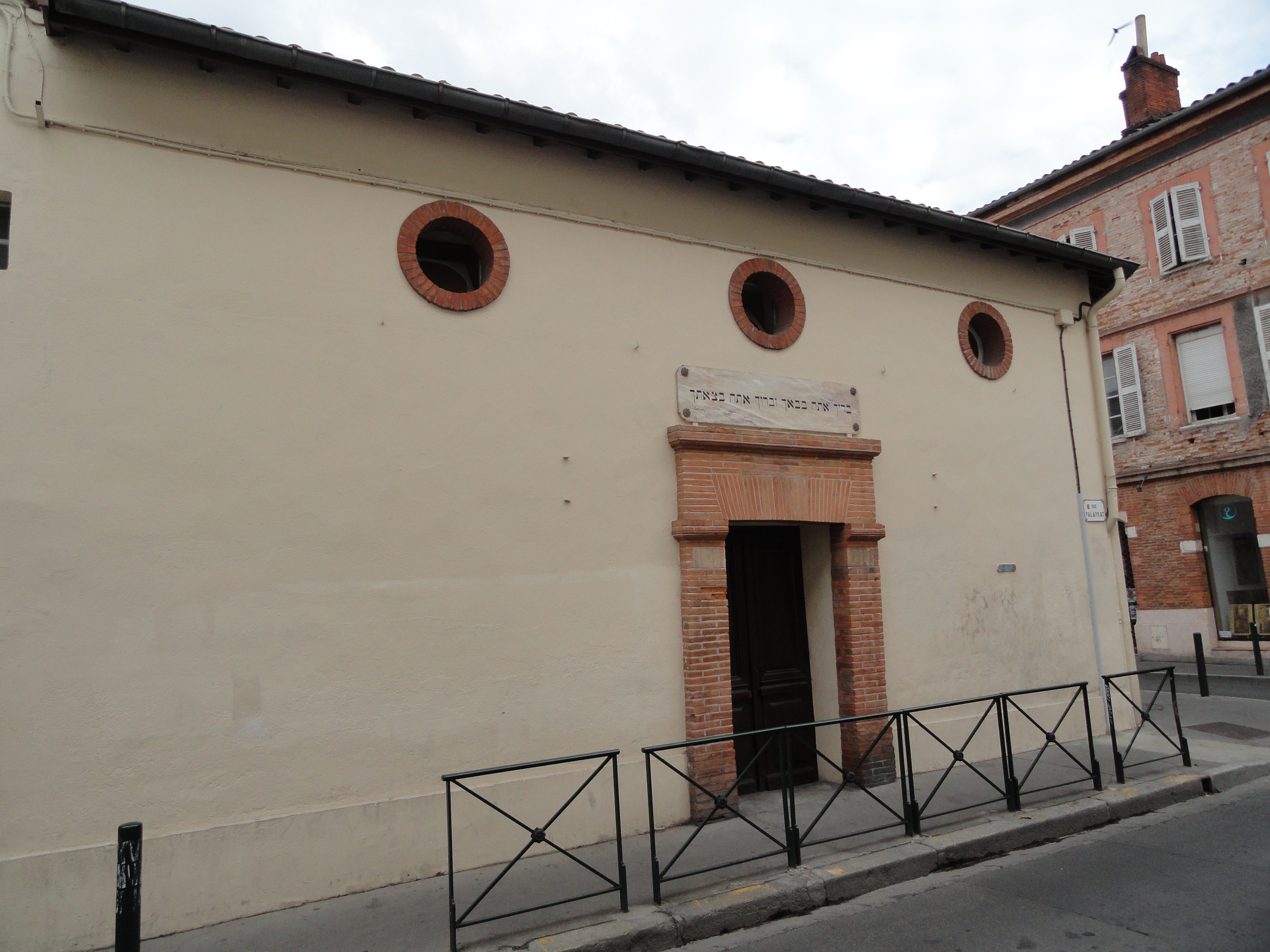 Synagogue Palaprat-Toulouse - France- general view